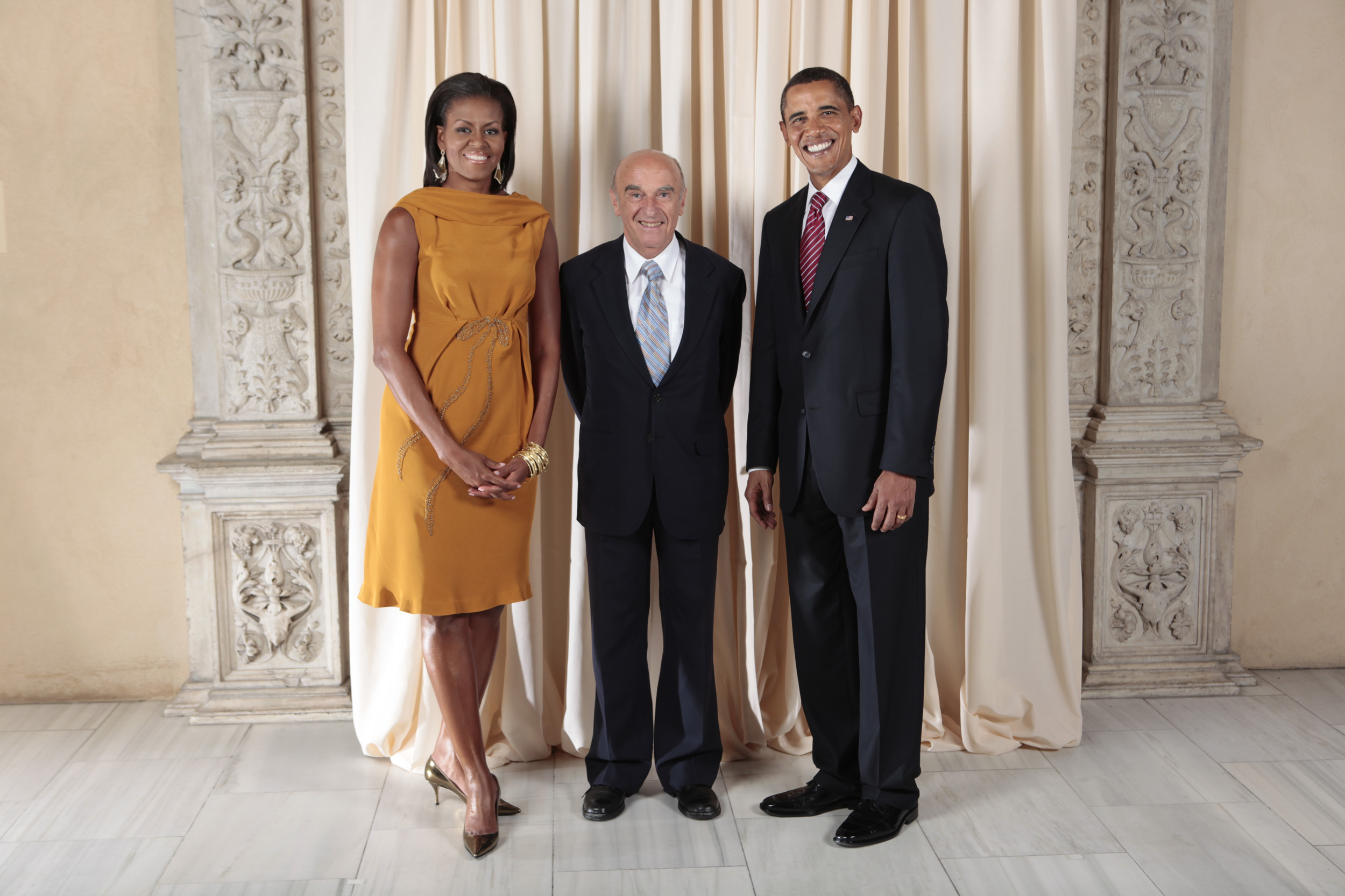 President Barack Obama and First Lady Michelle Obama pose for a photo during a reception at the Metropolitan Museum in New York with Hans-Rudolf Merz, President of the Swiss Confederation.